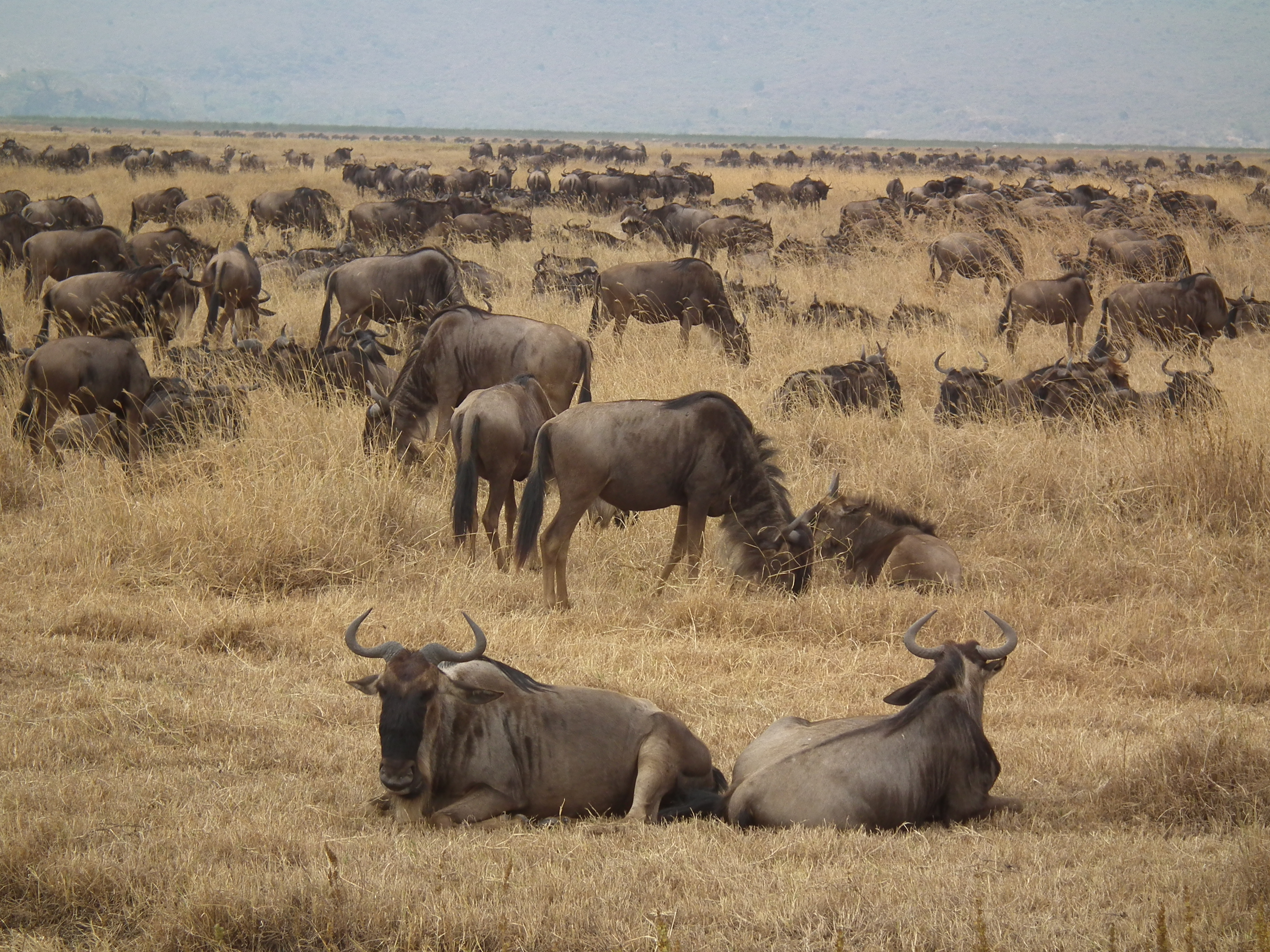 Wildebeest Connochaetes taurinus, picture taken in Tanzania